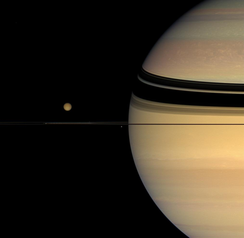 Four moons huddle near Saturn's multi-hued disk. The coloration of the planet's northern hemisphere has changed noticeably since the Cassini spacecraft's arrival in orbit in mid-2004. Imaging scientists are working to understand the causes of this change, which is suspected to be a seasonal effect. Giant Titan (5,150 kilometers, or 3,200 miles across), with its darker winter hemisphere, dominates the smaller moons in the scene. Beneath and left of Titan is Janus (181 kilometers, or 113 miles across). Mimas (397 kilometers, or 247 miles across) appears as a bright dot close to the planet and beneath the rings. Prometheus (102 kilometers, or 63 miles across) is a faint speck hugging the rings between the two small moons. This view looks toward the unilluminated side of the rings from less than a degree above the ringplane. Images taken using red, green and blue spectral filters were combined to create this natural color view. The view was acquired with the Cassini spacecraft wide-angle camera on Oct. 26, 2007, at a distance of approximately 1.5 million kilometers (920,000 miles) from Saturn and 2.7 million kilometers (1.7 million miles) from Titan. Image scale is 89 kilometers (55 miles) per pixel on Saturn and 164 kilometers (102 miles) per pixel on Titan. The Cassini-Huygens mission is a cooperative project of NASA, the European Space Agency and the Italian Space Agency. The Jet Propulsion Laboratory, a division of the California Institute of Technology in Pasadena, manages the mission for NASA's Science Mission Directorate, Washington, D.C. The Cassini orbiter and its two onboard cameras were designed, developed and assembled at JPL. The imaging operations center is based at the Space Science Institute in Boulder, Colo.